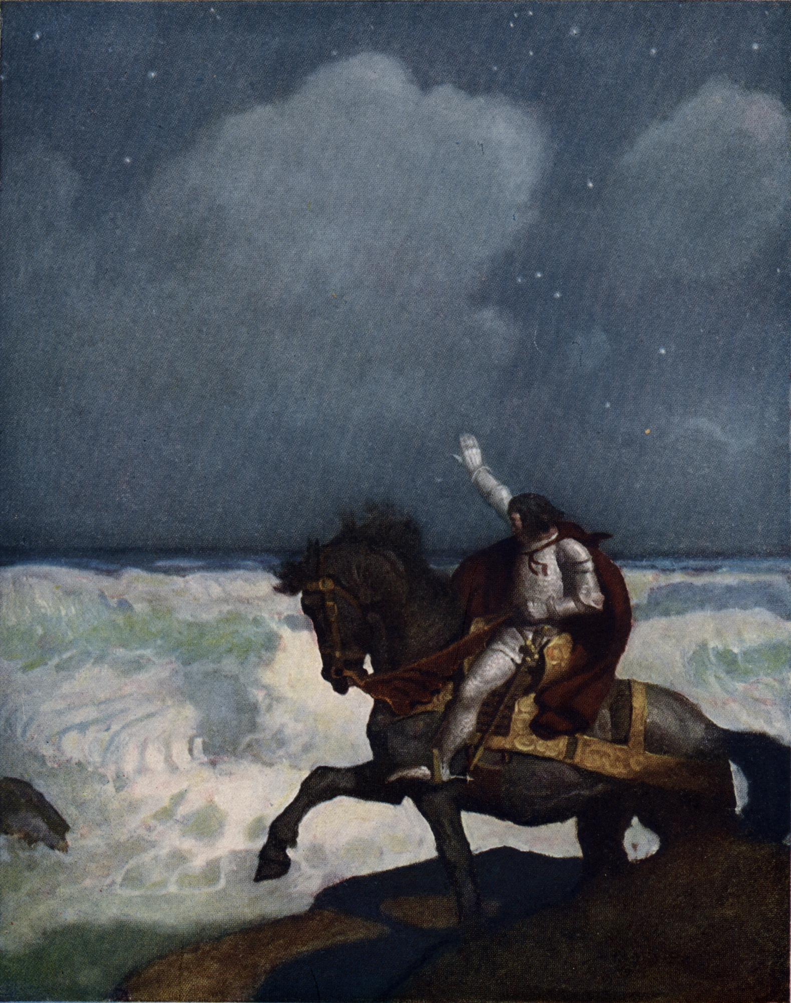 Illustration from page 214 of The Boy's King Arthur: "When Sir Percival came nigh unto the brim, and saw the water so boisterous, he doubted to overpass it."